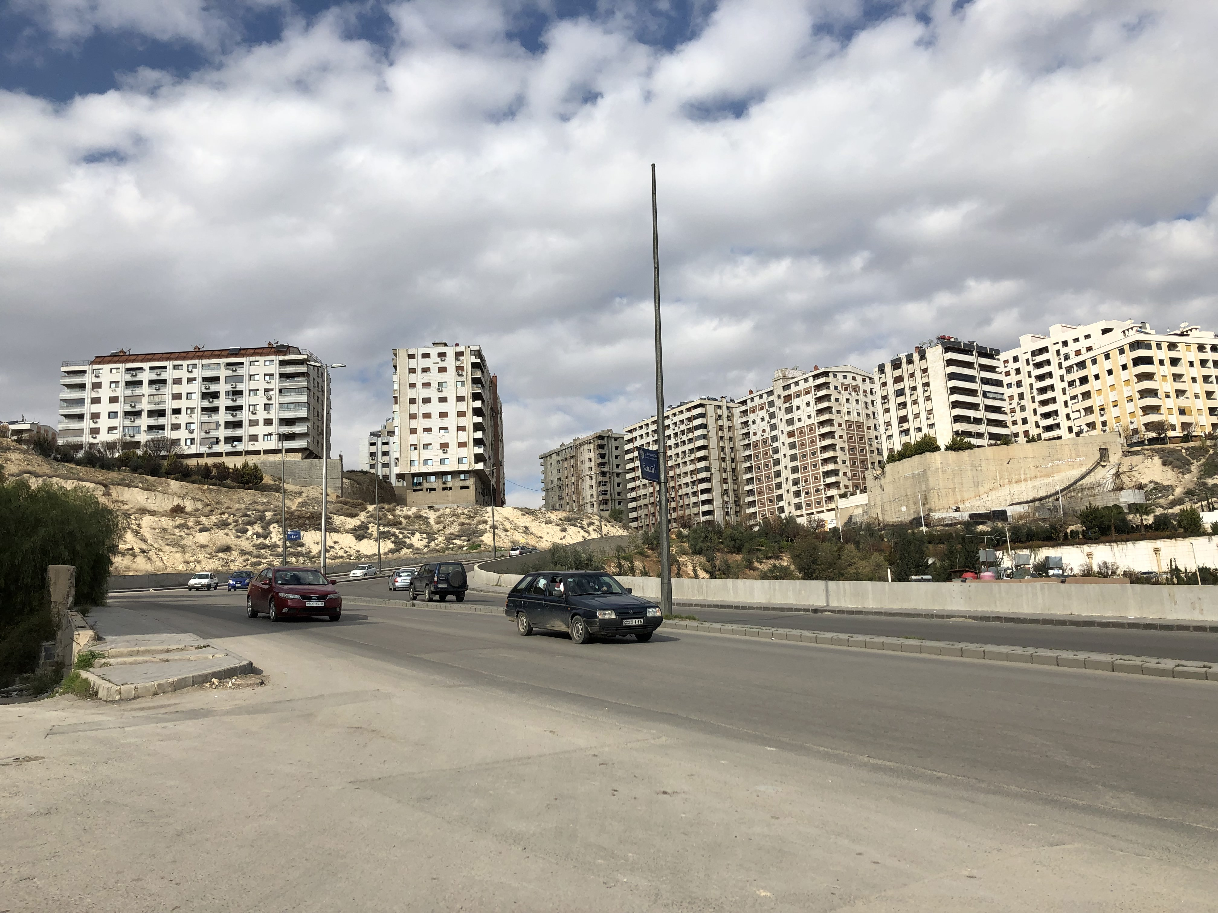 Dummar in 2019